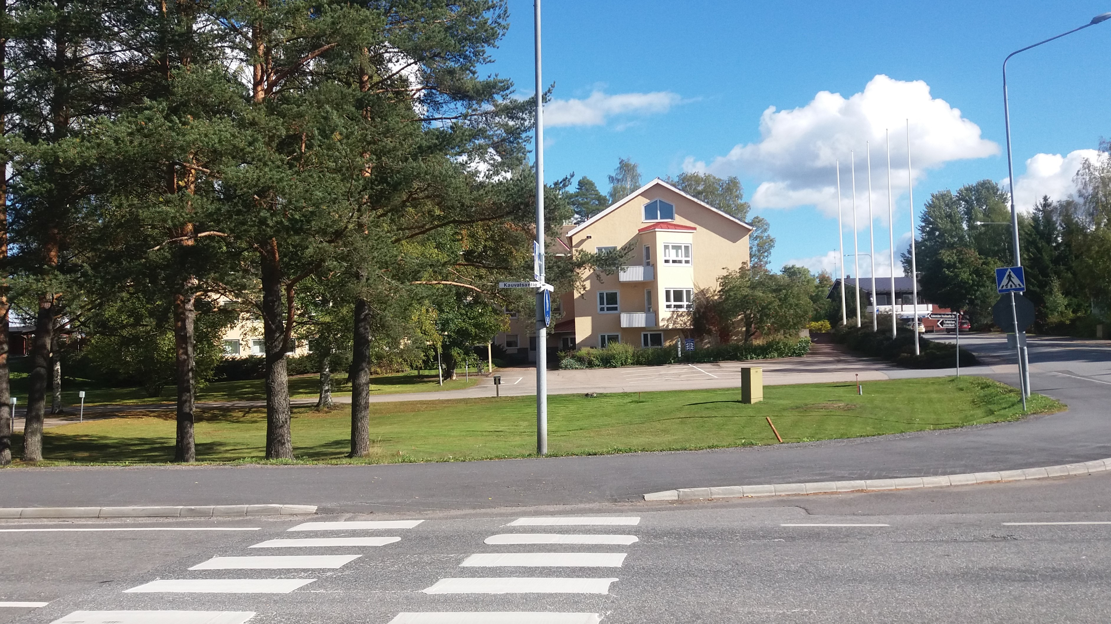 Kokemäki town hall. A former building of the newspaper Lalli, Tulkkila, Kokemäki, Finland.